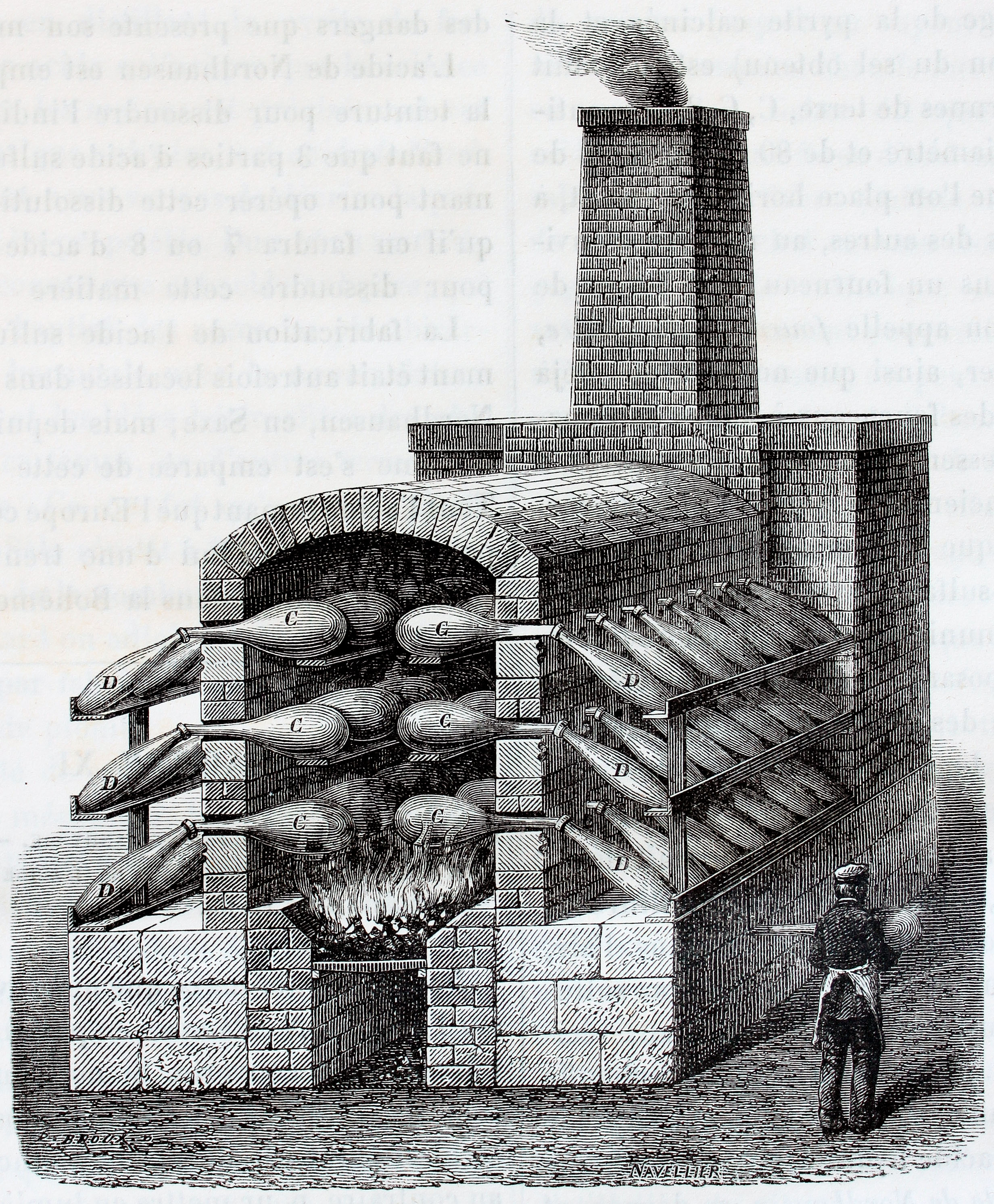 "Nordhausen apparatus for the preparation of sulfuric acid"